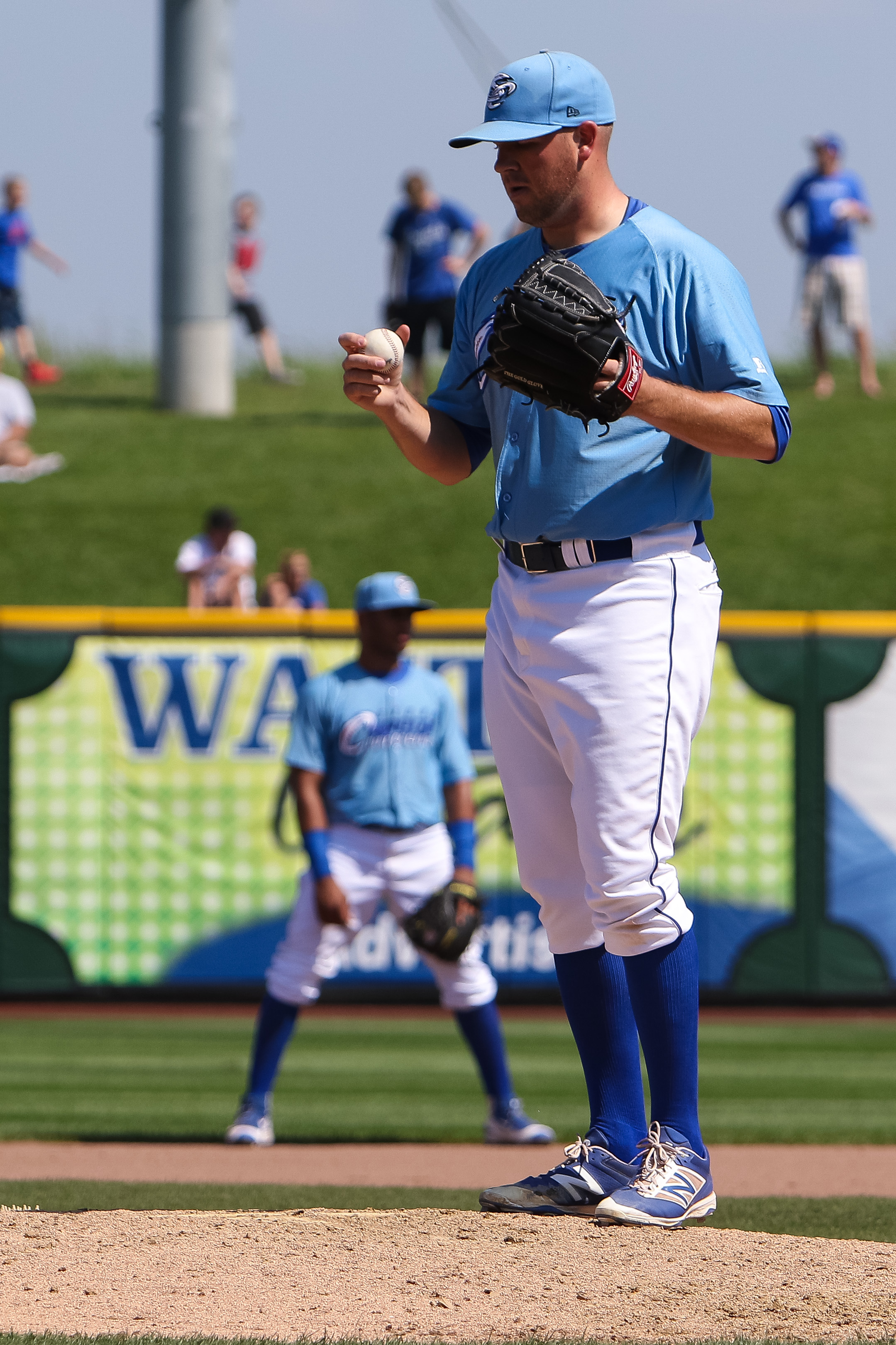 Minda Haas Kuhlmann | 2016 USAGE INSTRUCTIONS: You are welcome to share or publish to your own site or social media account, but you MUST credit me, Minda Haas Kuhlmann, or by my Twitter handle (@minda33) or Instagram (minda.haas).